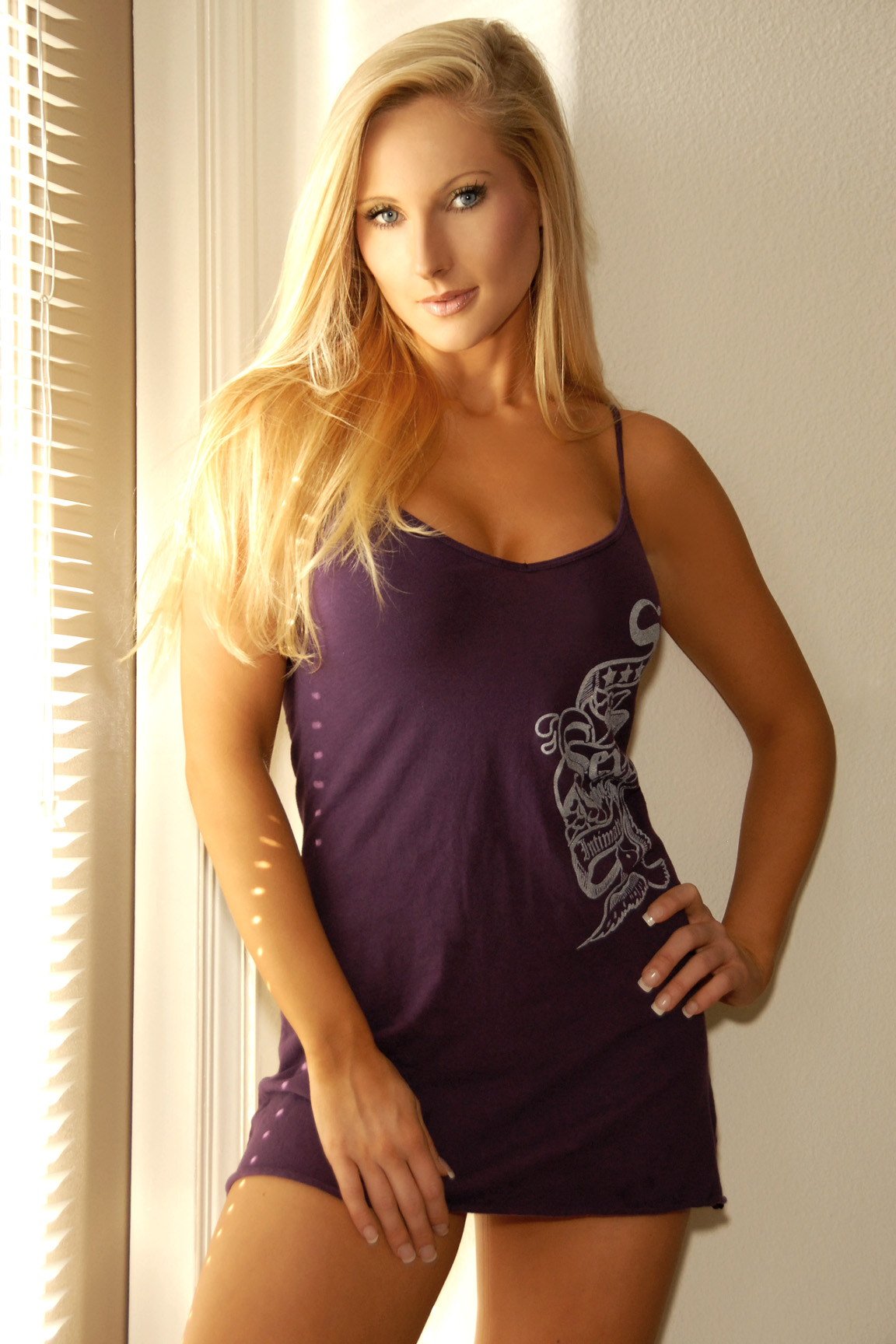 Jessica Rockwell modeling a Modern-Day Chemise - Photo by Glenn Francis of